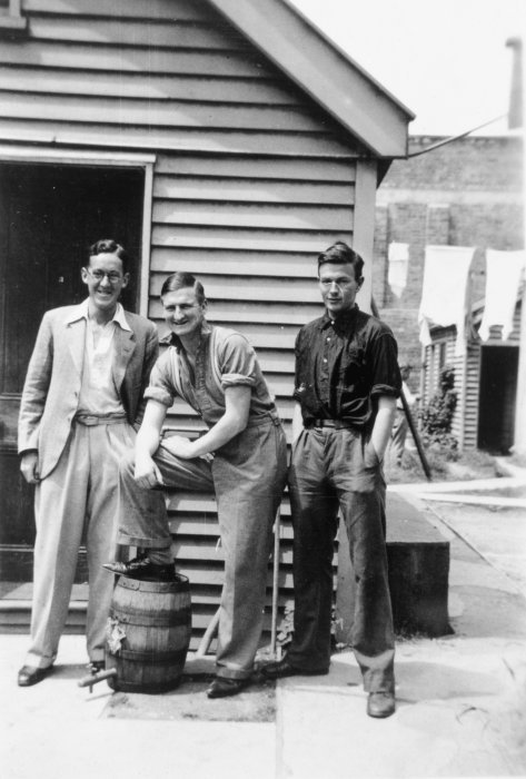 Ian Frank George Milner, Denis James Matthews Glover and Robert William Lowry at the 'Dog-box', St Elmos flats, Christchurch, New Zealand. Taken by an unidentified photographer in December 1933.